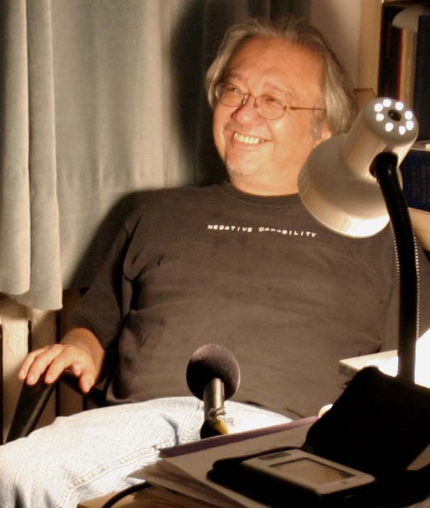 John Yau, photo by Gloria Graham, taken during the video taping of Add-Verse, 2003